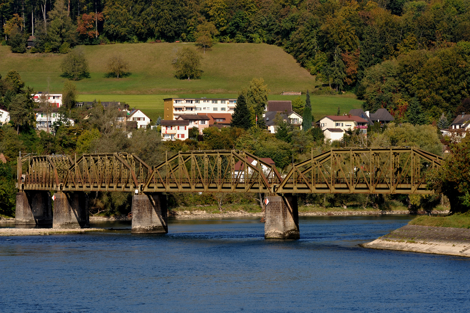 SBB bridge crossing the Aare between Koblenz and Felsenau; Aargau, Switzerland.